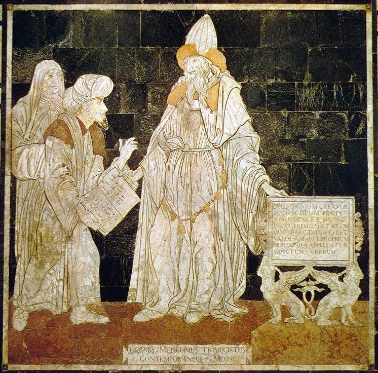 Floor inlay in the Cathedral of Siena